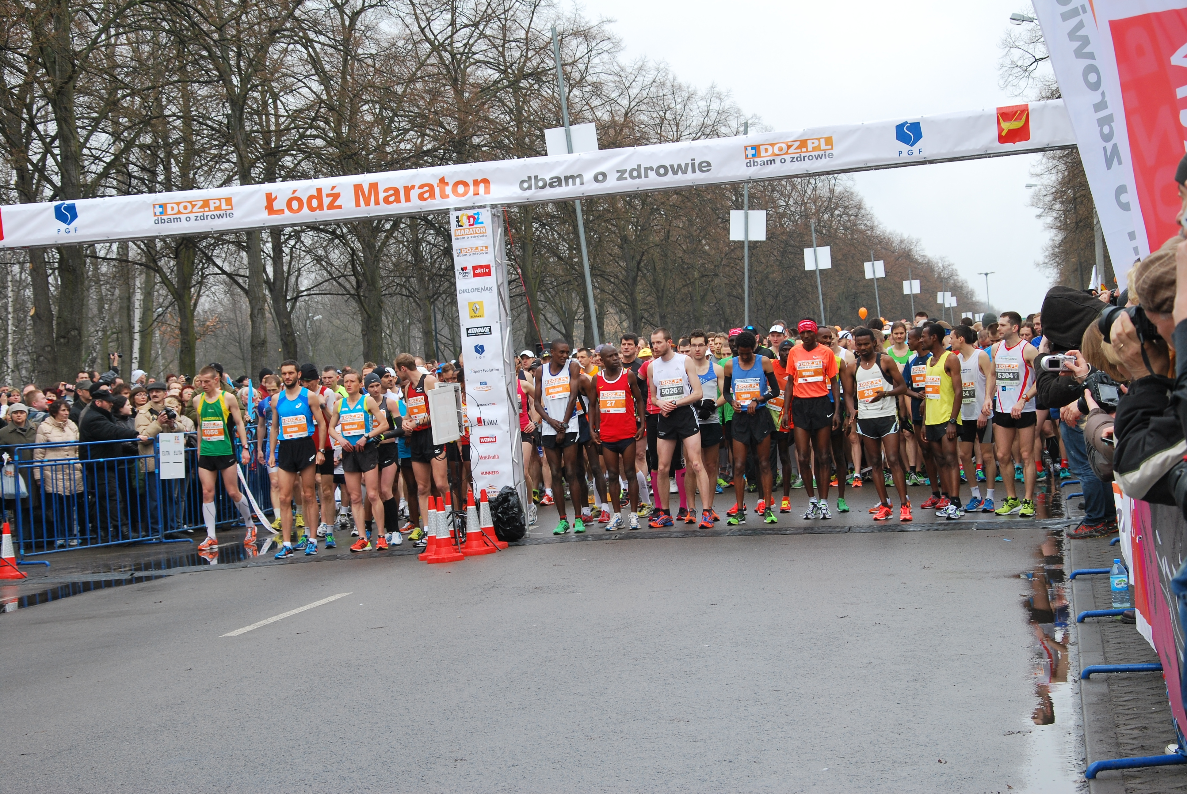 Łódź Dbam o Zdrowie Marathon 2013